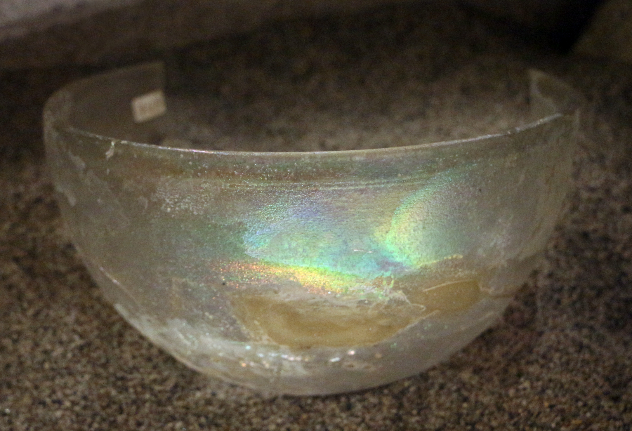 Syro-Palestinian glass bowl, dating from 180-200 BC, belonging to the Pozzino shipwreck. Now exhibited in the Museo archeologico del territorio di Populonia at Piombino (Tuscany, Italy).